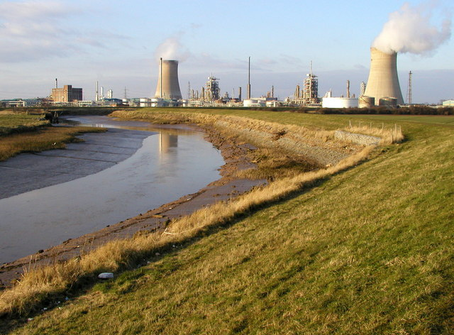 Hedon Clough and the BP Chemicals site at Salt End, East Riding of Yorkshire, England.This waterway used to be navigable for nearly two miles up to the town of Hedon. Although nearly two miles inland, Hedon was a port long before Hull nearby was even established! The waterway has been filled in for a lot of its length, but there are ambitious plans to re-open it one day.